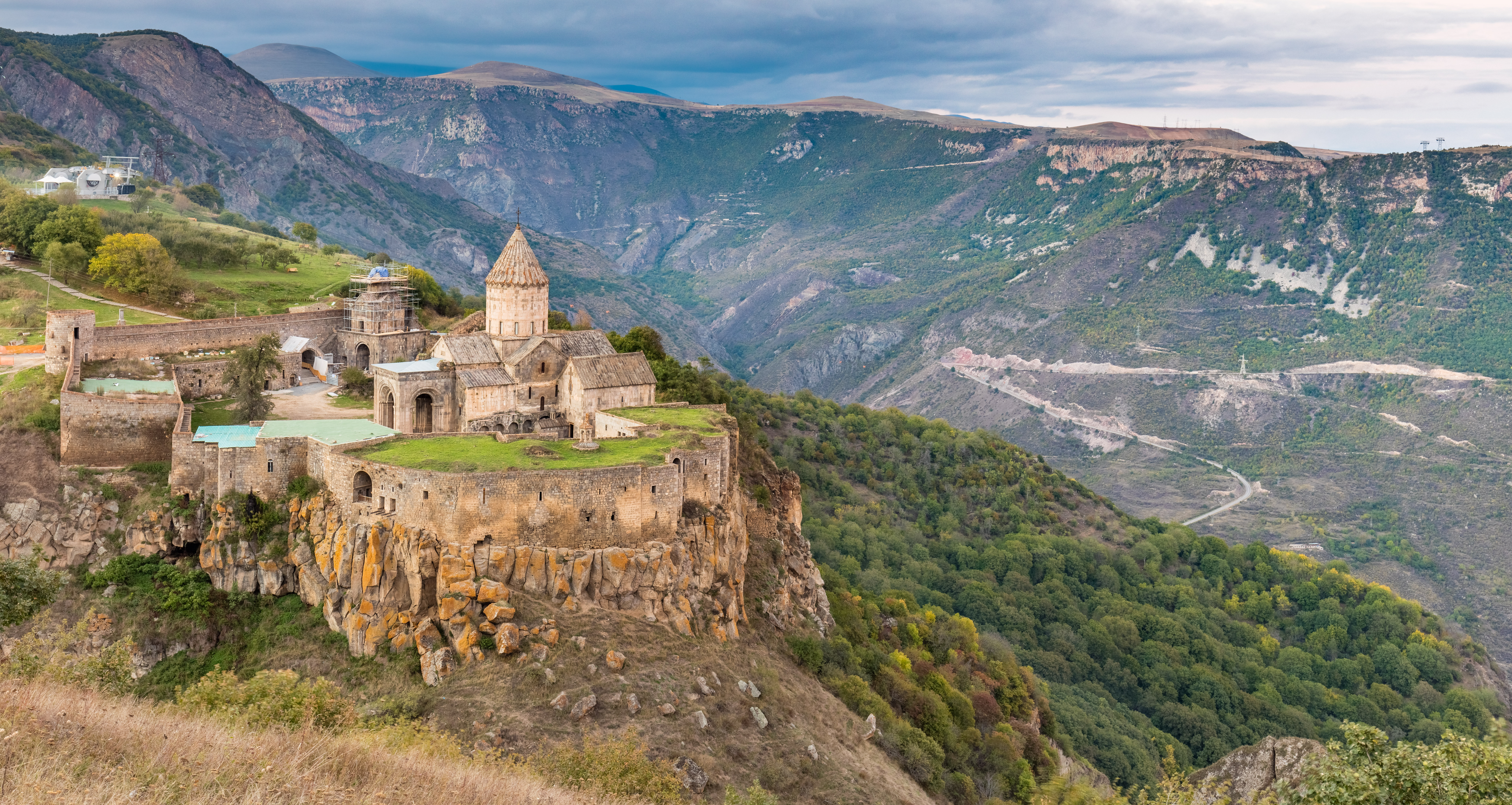 Tatev Monastery, Armenia